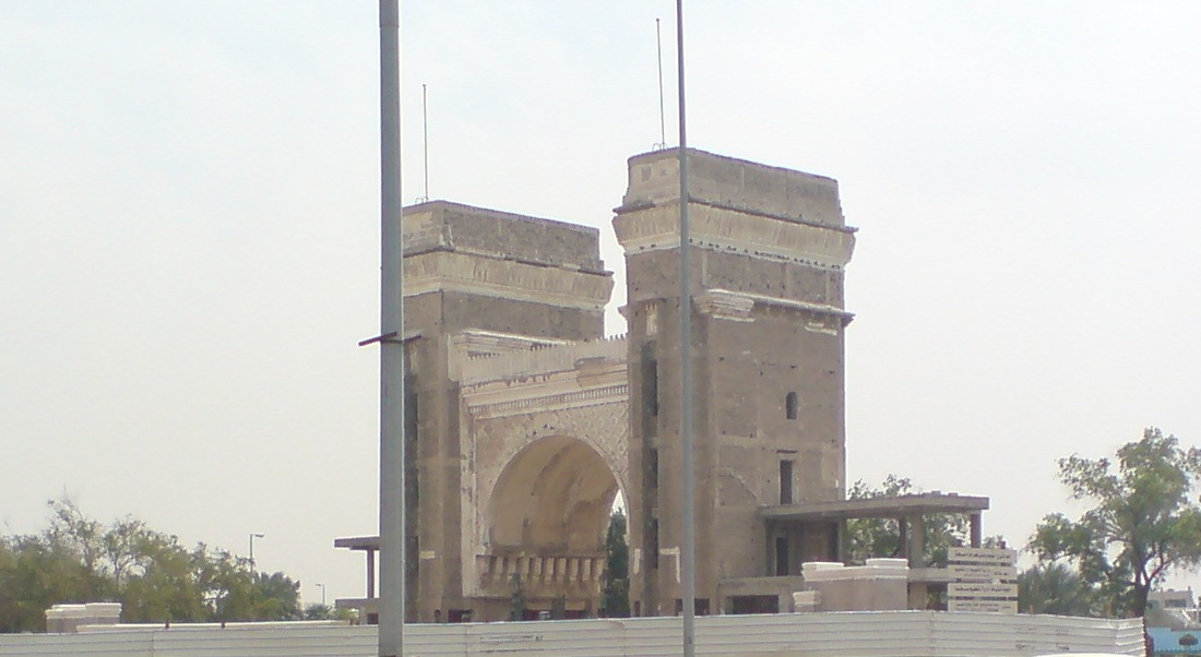 Historical gate of city of Jeddah. I'm Ammar shaker 00:39, 5 April 2007 (UTC) the owner of this image release it into public domain for use in